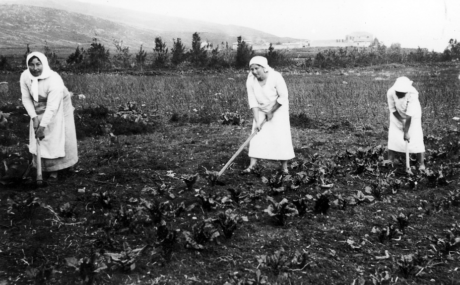 3 women from Haalamot Farm, (The Young Women’s Farm) an agricultural school for women established by Hannah Meisel